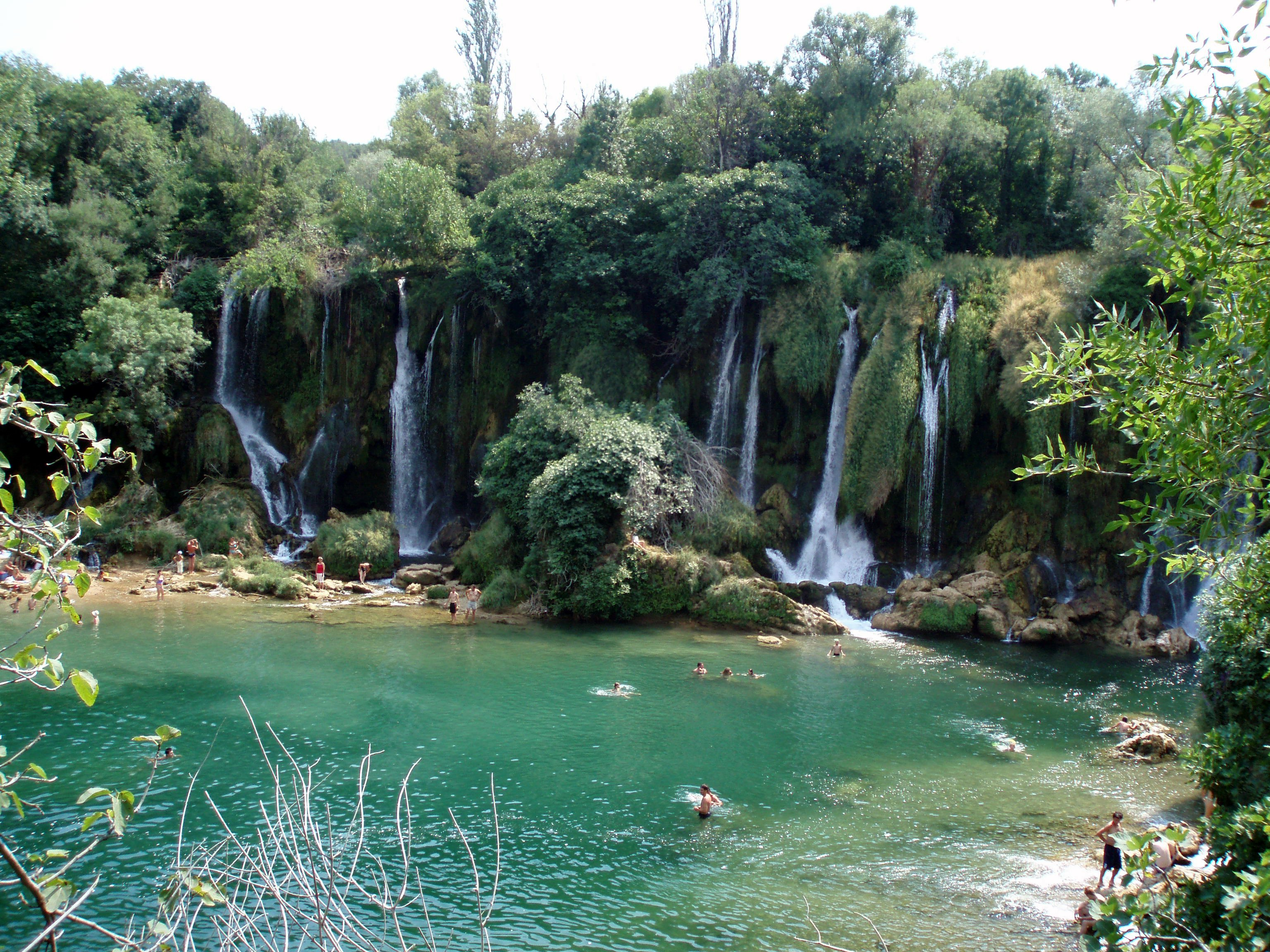 Kravica waterfall